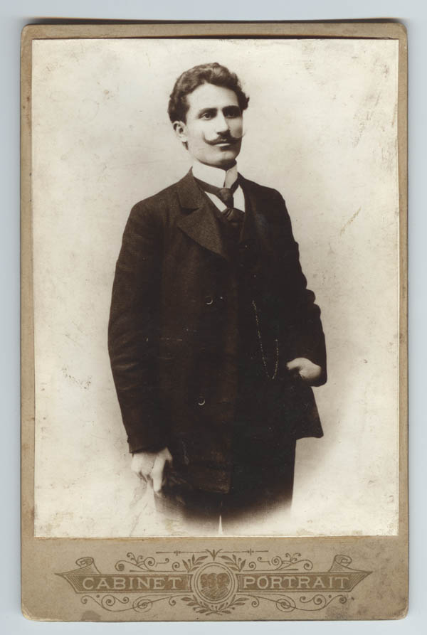 Picture postcard of bulgarian IMARO revolutionary Vasil Chekalarov from Smrdesh